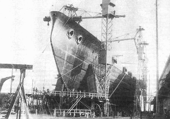 Battleship Imperator Nikolai I.